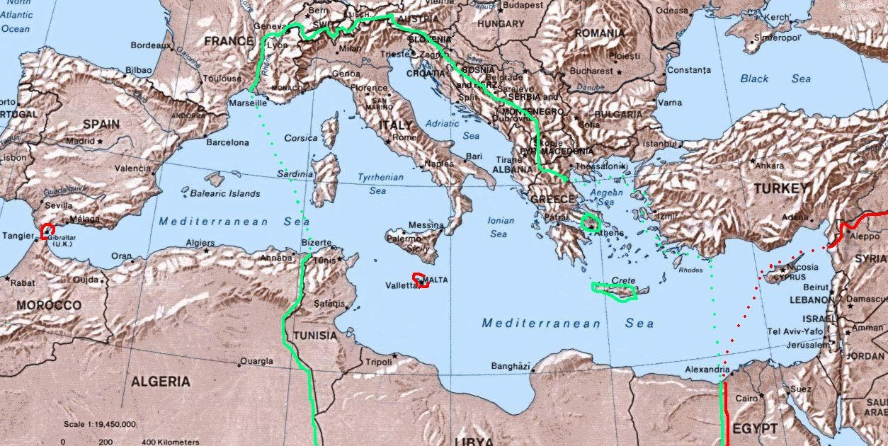 Map of Italian "Mare Nostrum" (Italian Mediterranean), showing inside the green line & dots the italian areas in the Mediterranean sea during summer 1942 (in red those under British control). The remaining areas were under Axis control (Germany,Bulgary and Vichy France) and under friendly neutrality (Spain, Turkey).